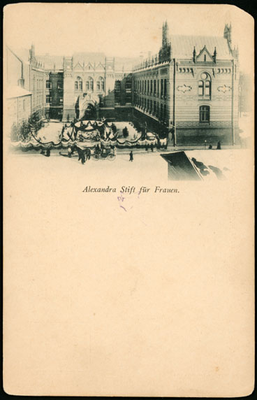 Saint Petersburg (Russia), Vasilievsky Island.